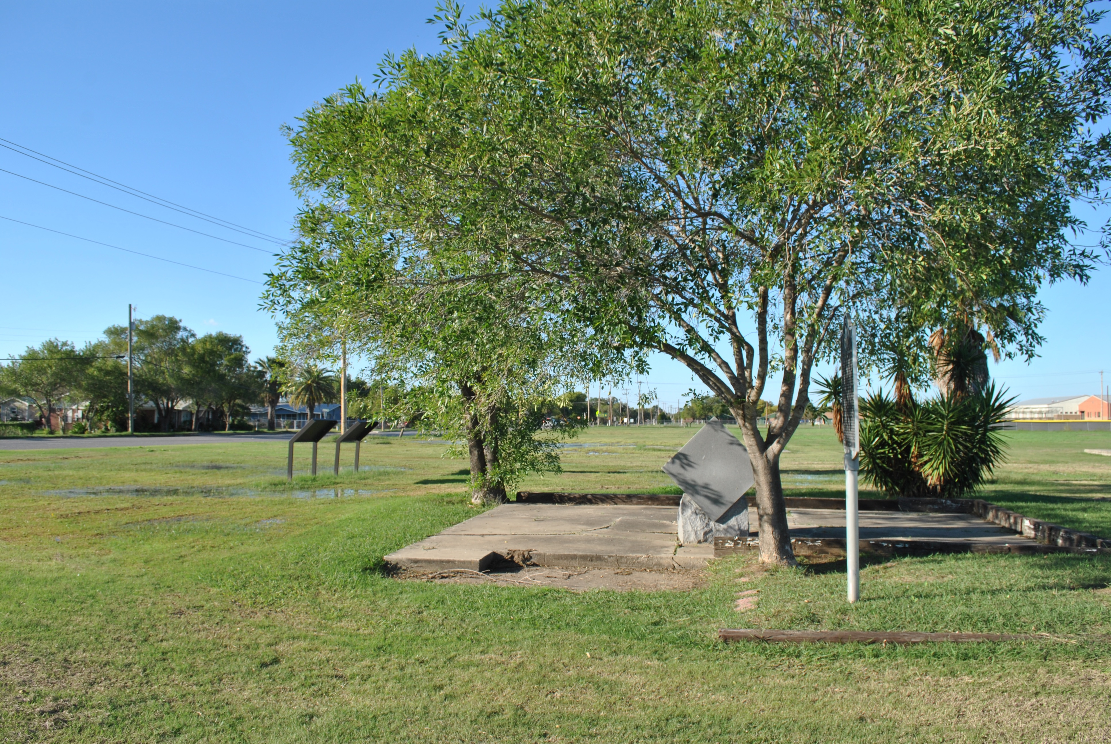 Memorial stele at the site of the WWII internment camp for Japanese Americans in Crystal City, Texas.